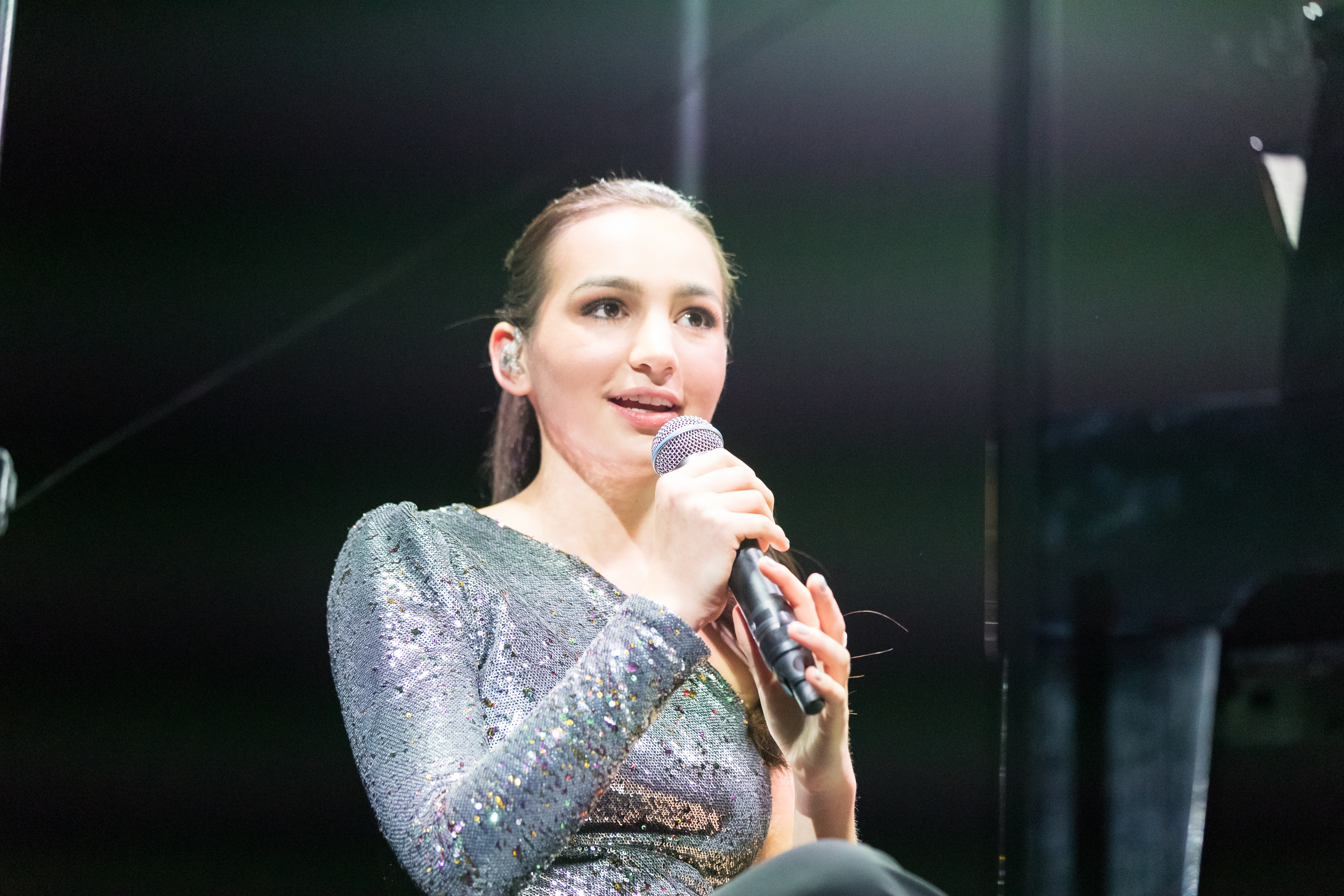 Emily Bear during Night of the Proms at SAP Arena, Mannheim, Baden-Württemberg, Germany on 2017-12-22, Photo: Sven Mandel